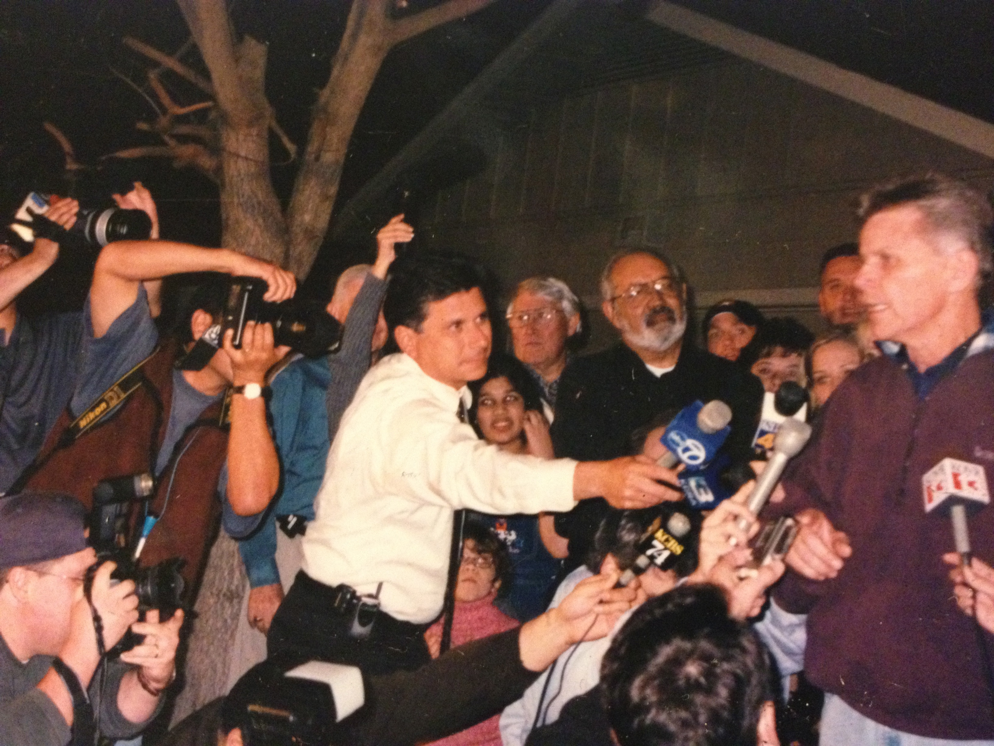 Jim Wieder (in white shirt) reporting on the resignation of congressman Gary Condit (right) during Chandra Levy scandal